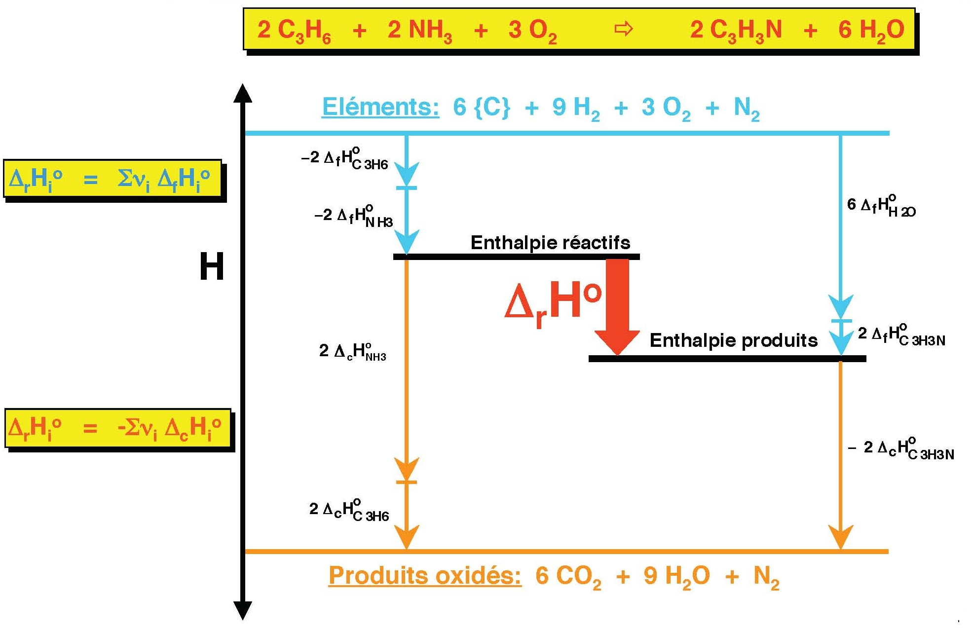 This figure shows an example of calculation of the reaction enthalpy, using enthalpies of formation or enthalpies of combustion for the reference state. Legends are in French.